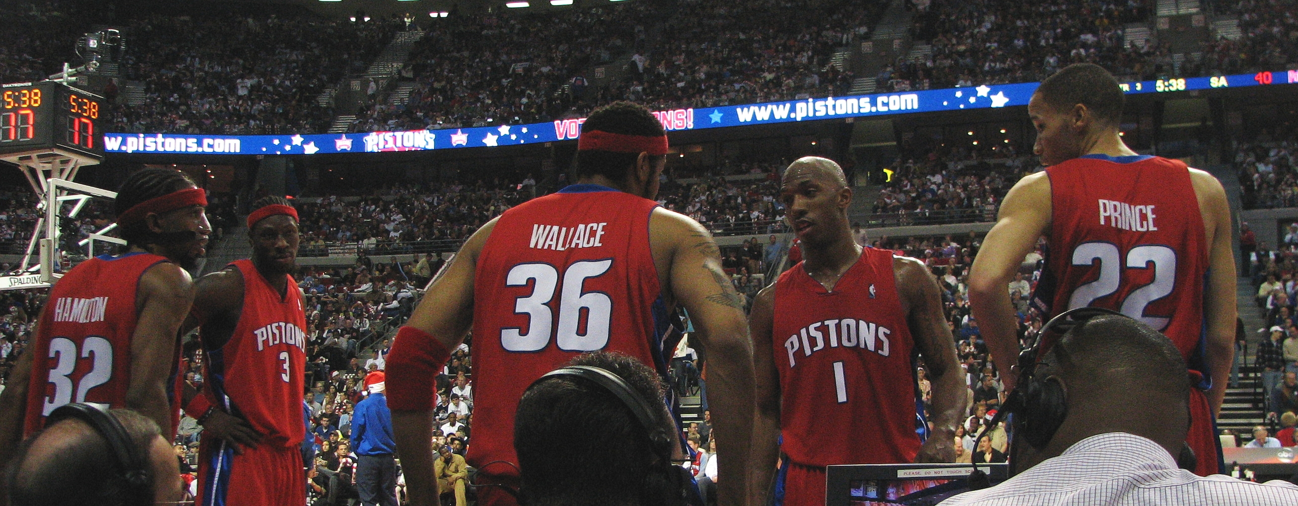 Detroit Pistons starting 5 2004-2006. Left to right: Richard Hamilton, Ben Wallace, Rasheed Wallace, Chauncey Billups, Tayshaun Prince